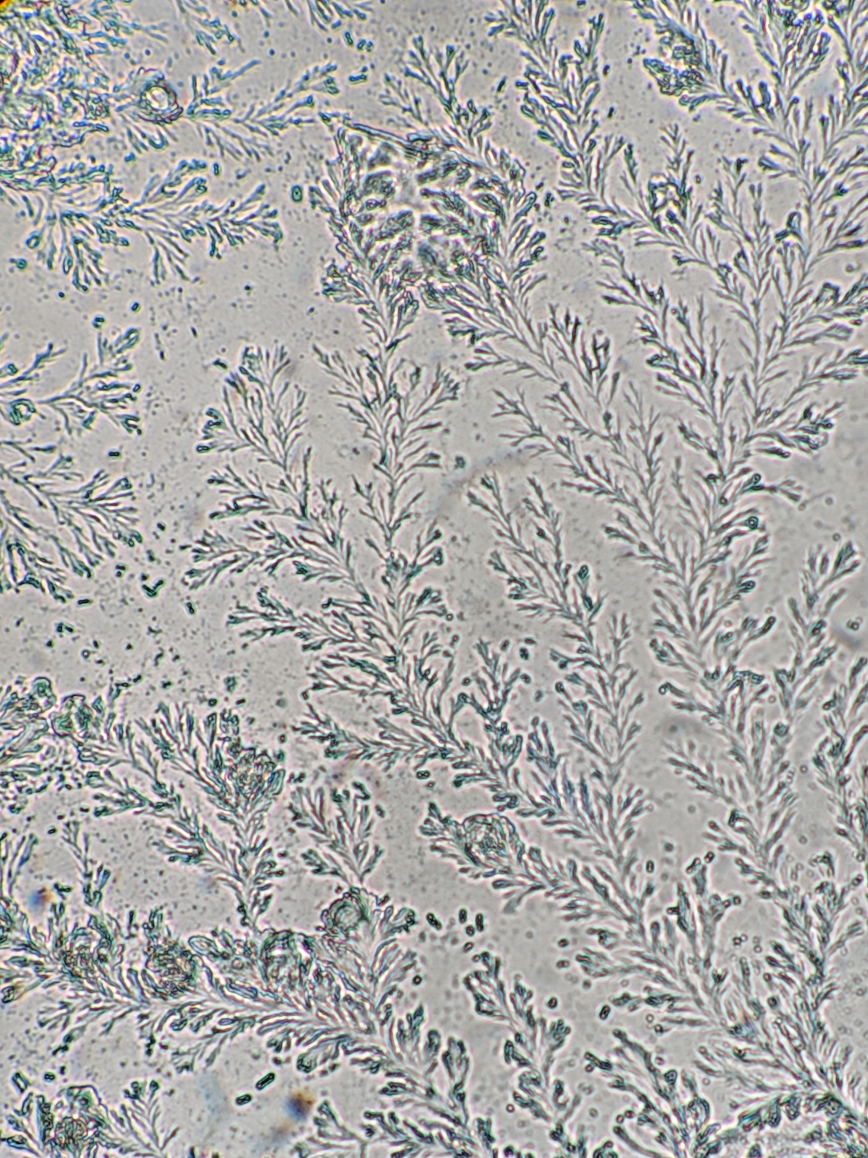 Positive Fern test taken 20 minutes after applying to a glass slide.